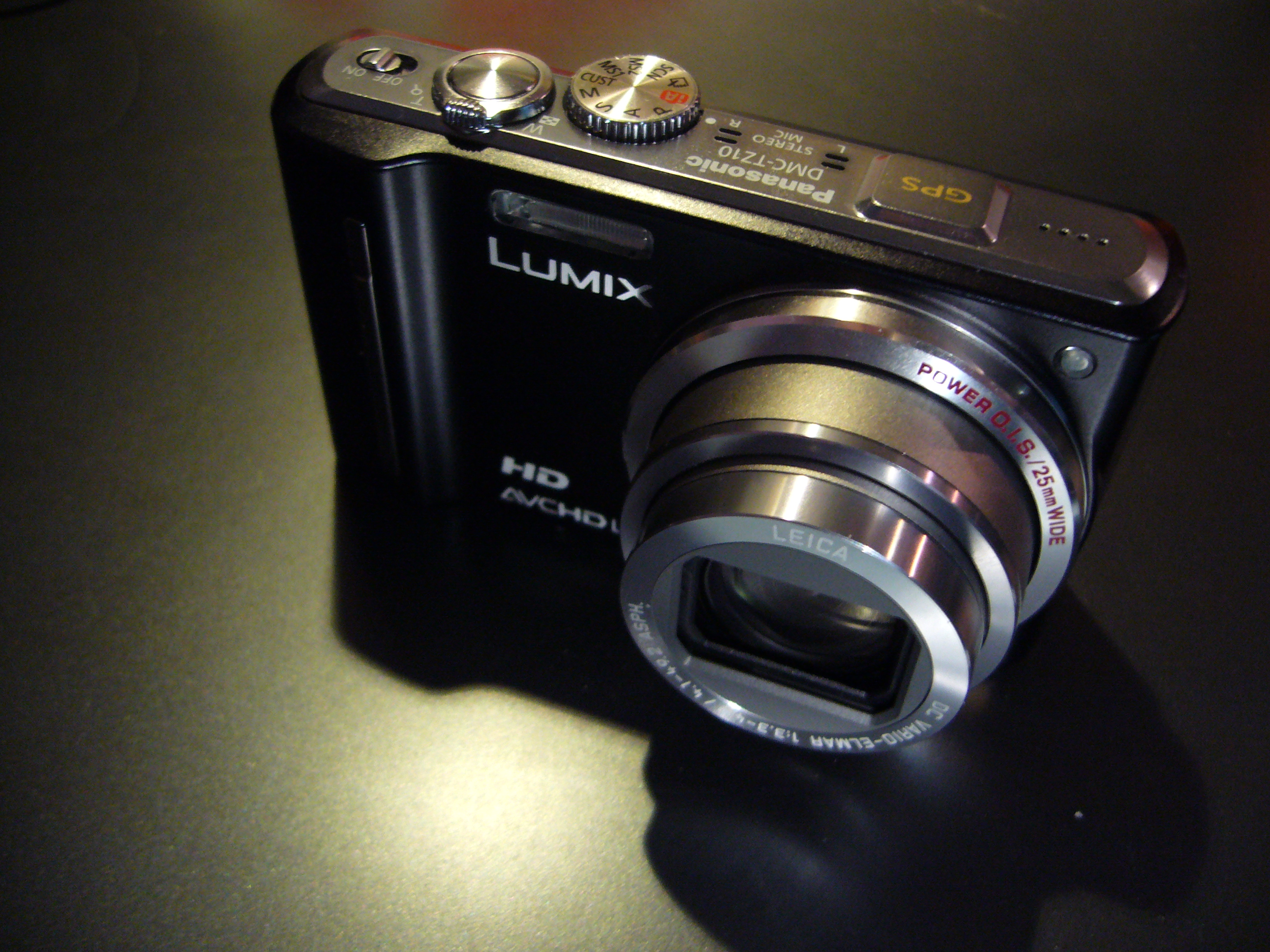 Panasonic Lumix DMC-TZ10